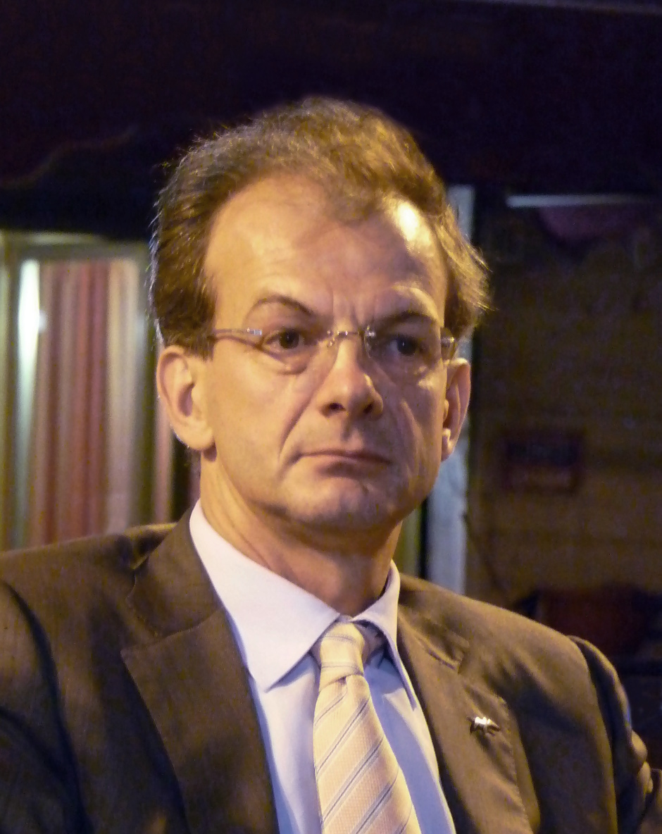 Massimo Donadi, Italian politician (Italia dei Valori)